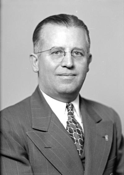 Representative Ralph C. (Brigham) Young, 1947